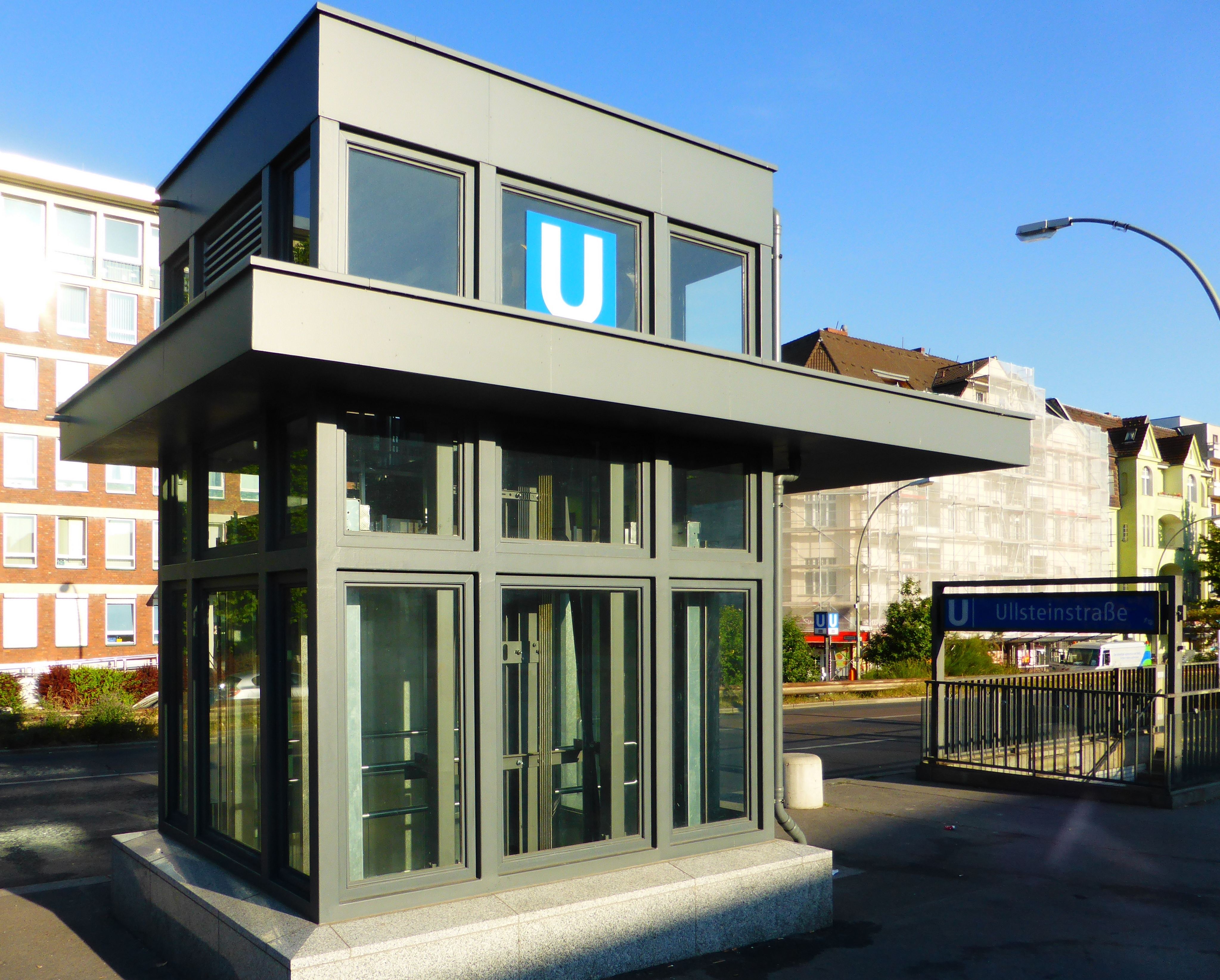 Elevator at the Berlin underground station Ullsteinstraße, street entrance.